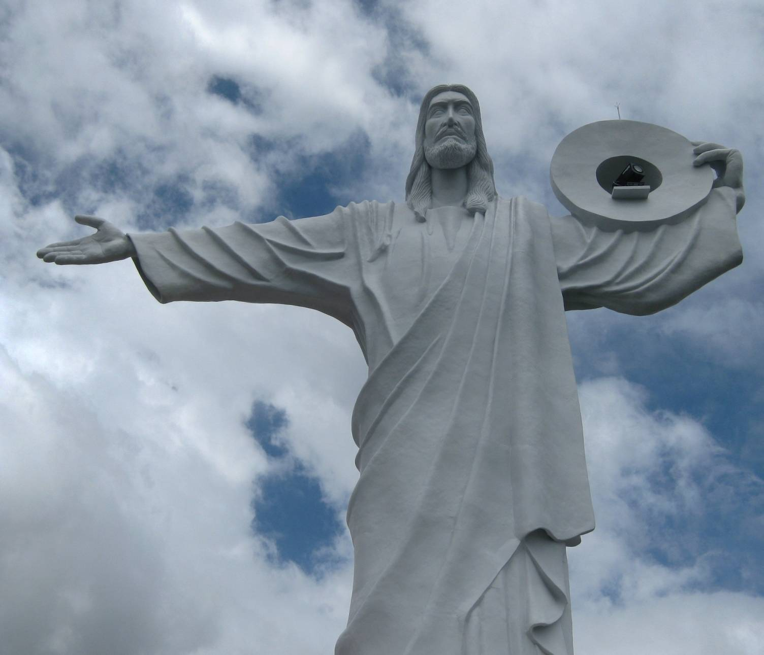 Balneário Camboriú, Brazil: Cristo Luz